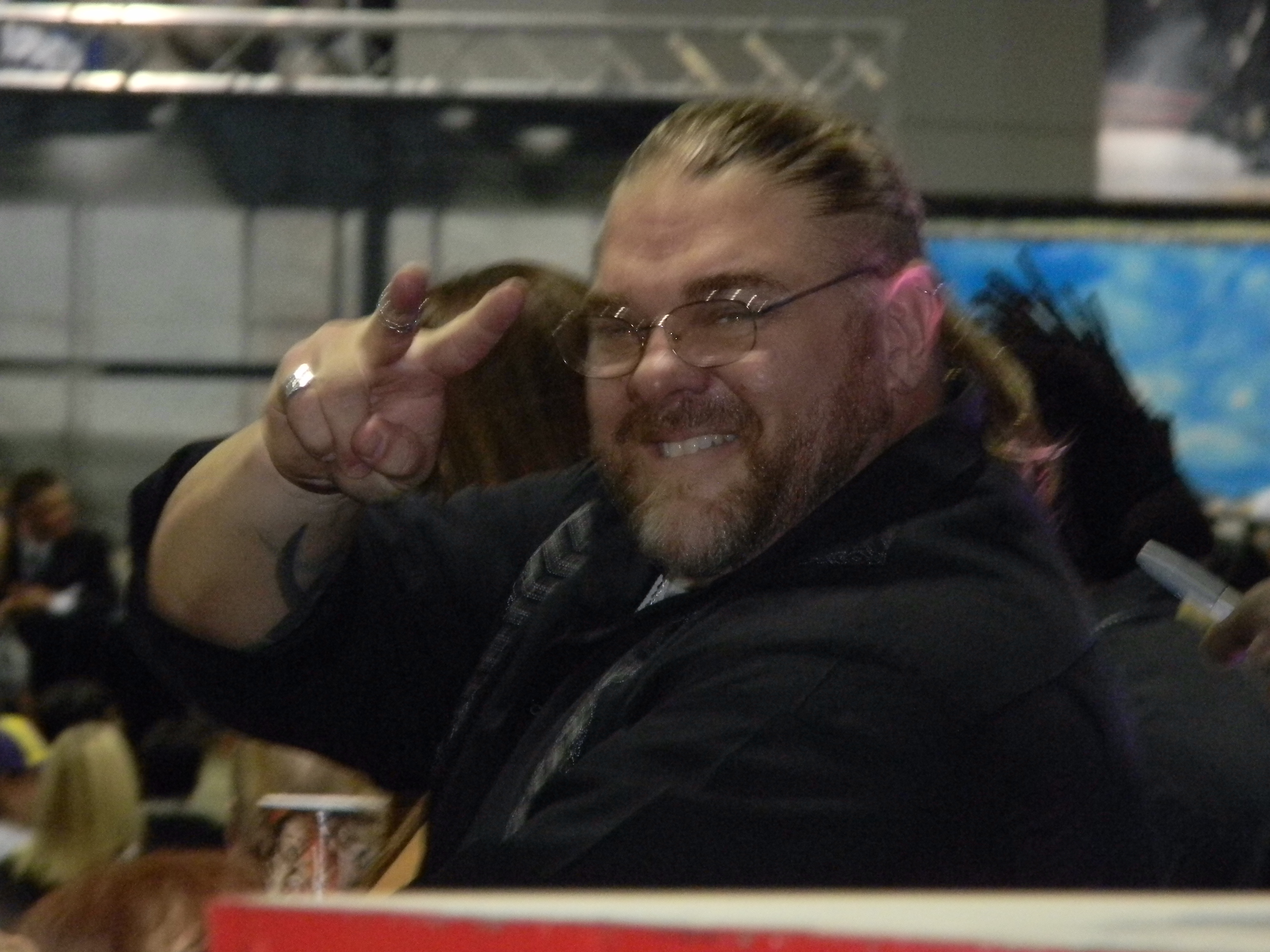 Bill DeMott at WrestleMania 27 Axxess on April 1, 2011 in Atlanta, Georgia.